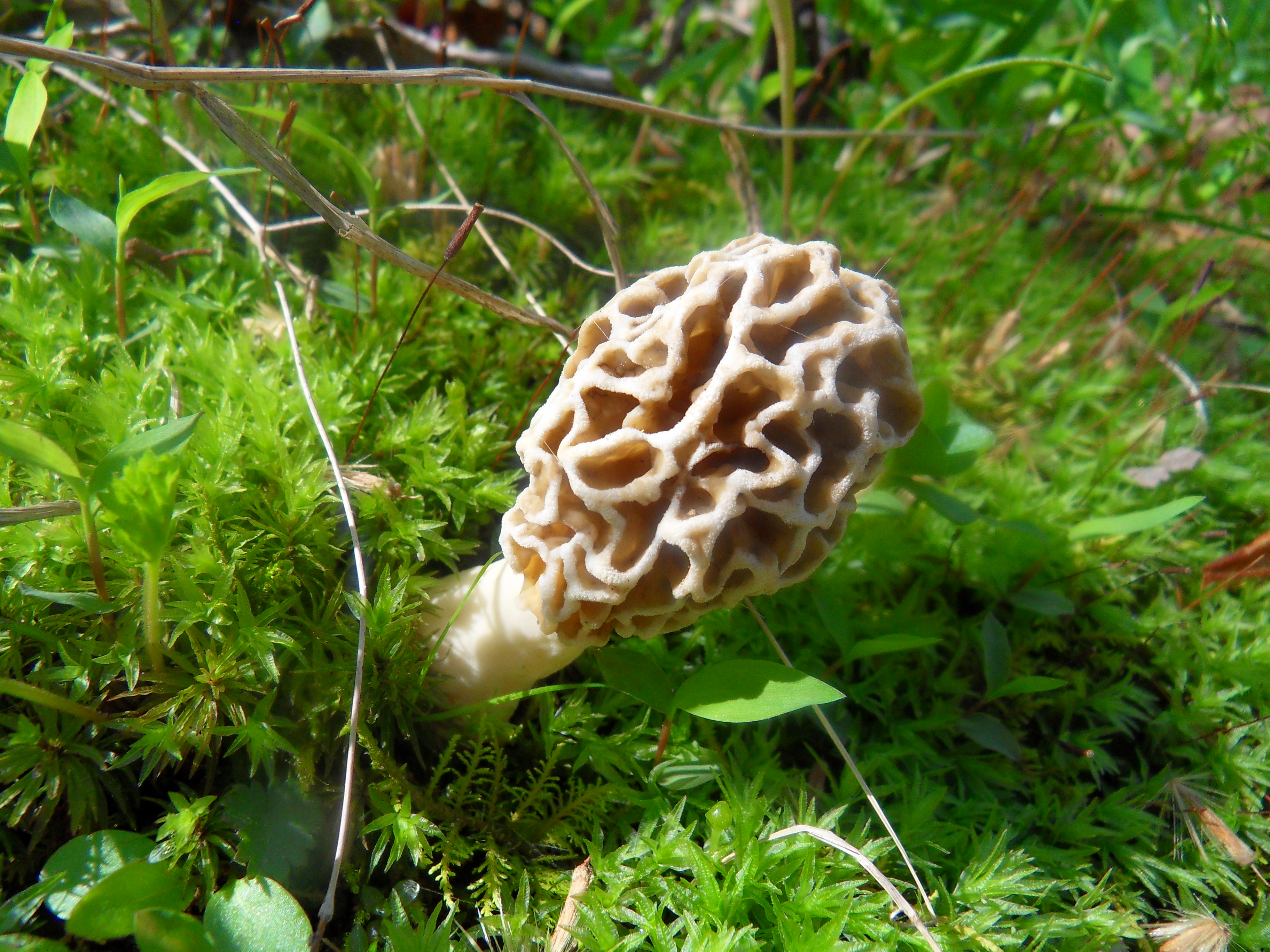 Morel Mushroom